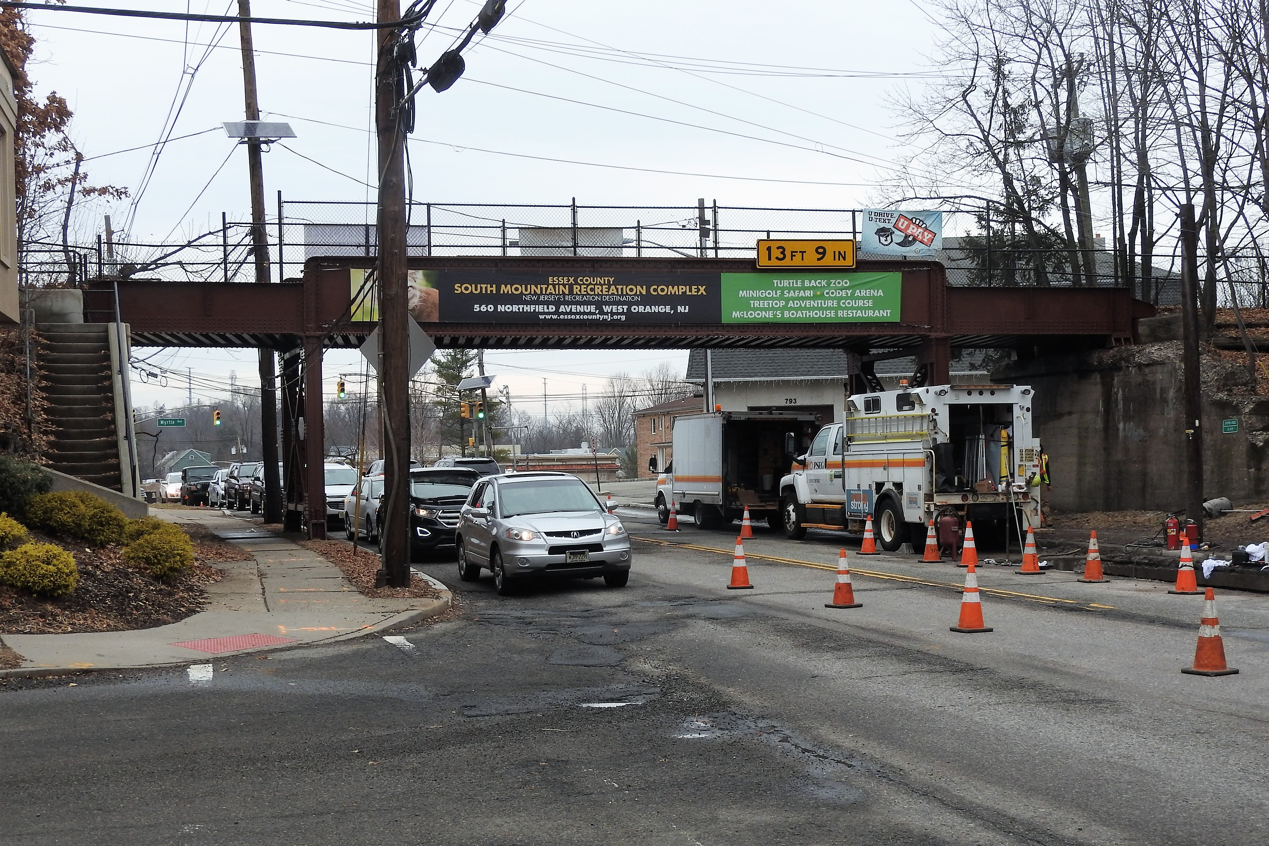 Looking north as West Essex Trail crosses Pompton Avenue on a cloudy day